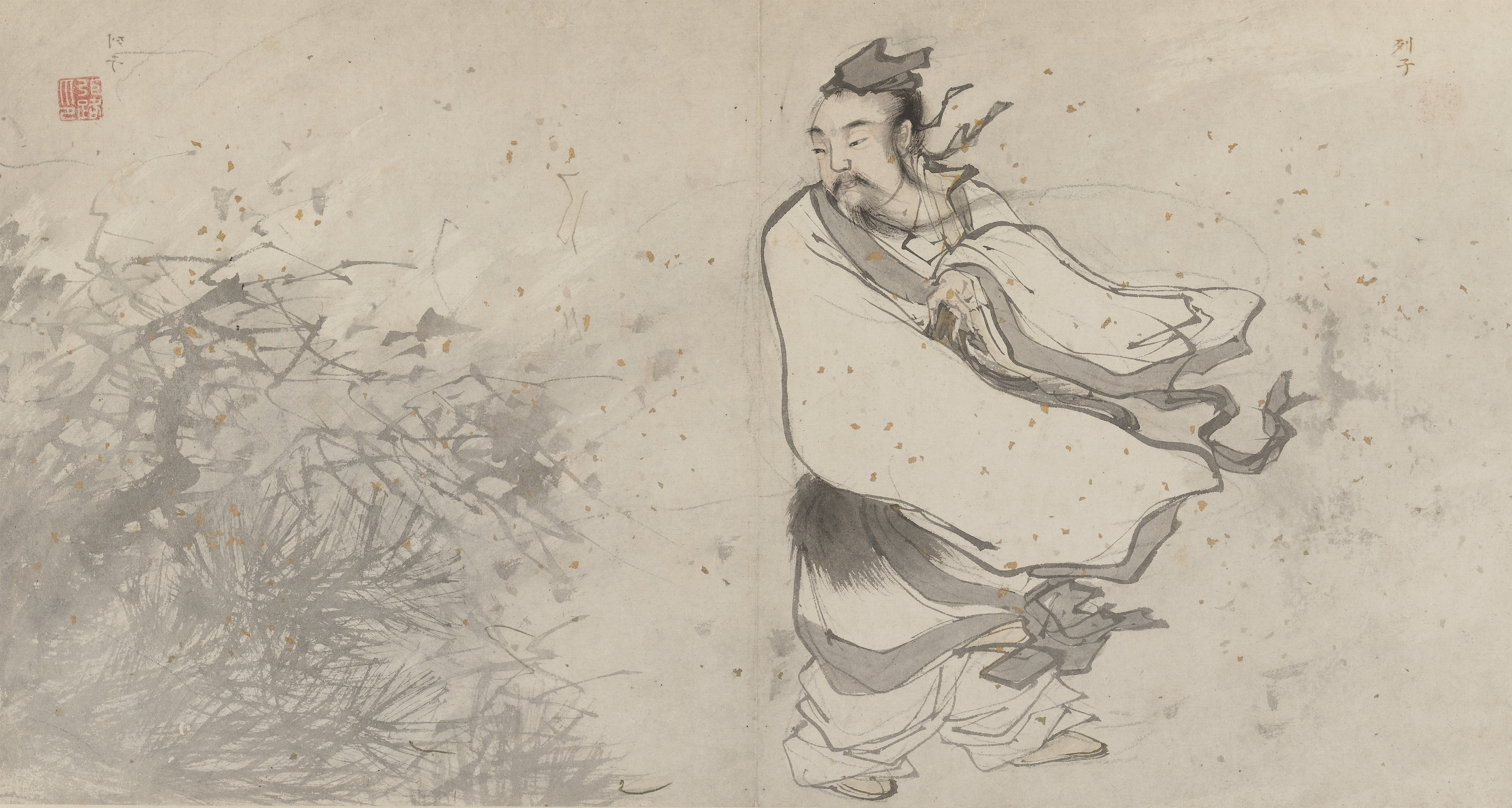 Depiction of the Daoist philosopher Liezi